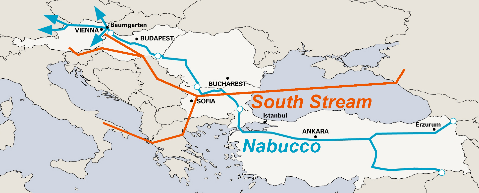 2010_Nabucco_and_South_Stream